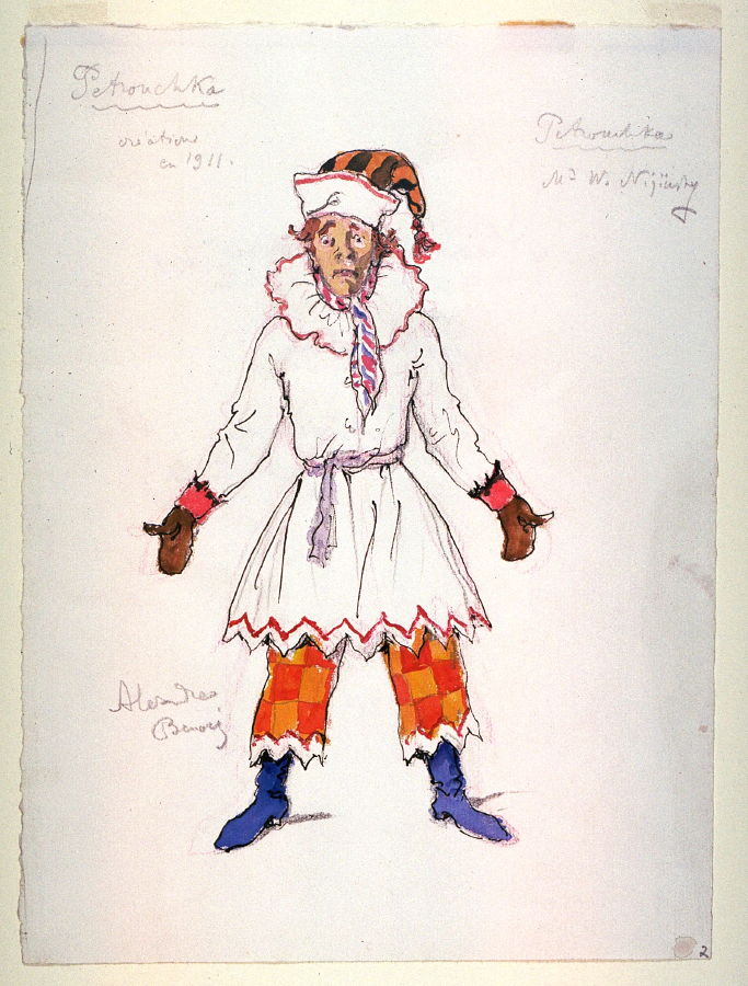 Costume design for the title role by Alexandre Benois for the 1911 Ballets Russes production Pétrouchka.